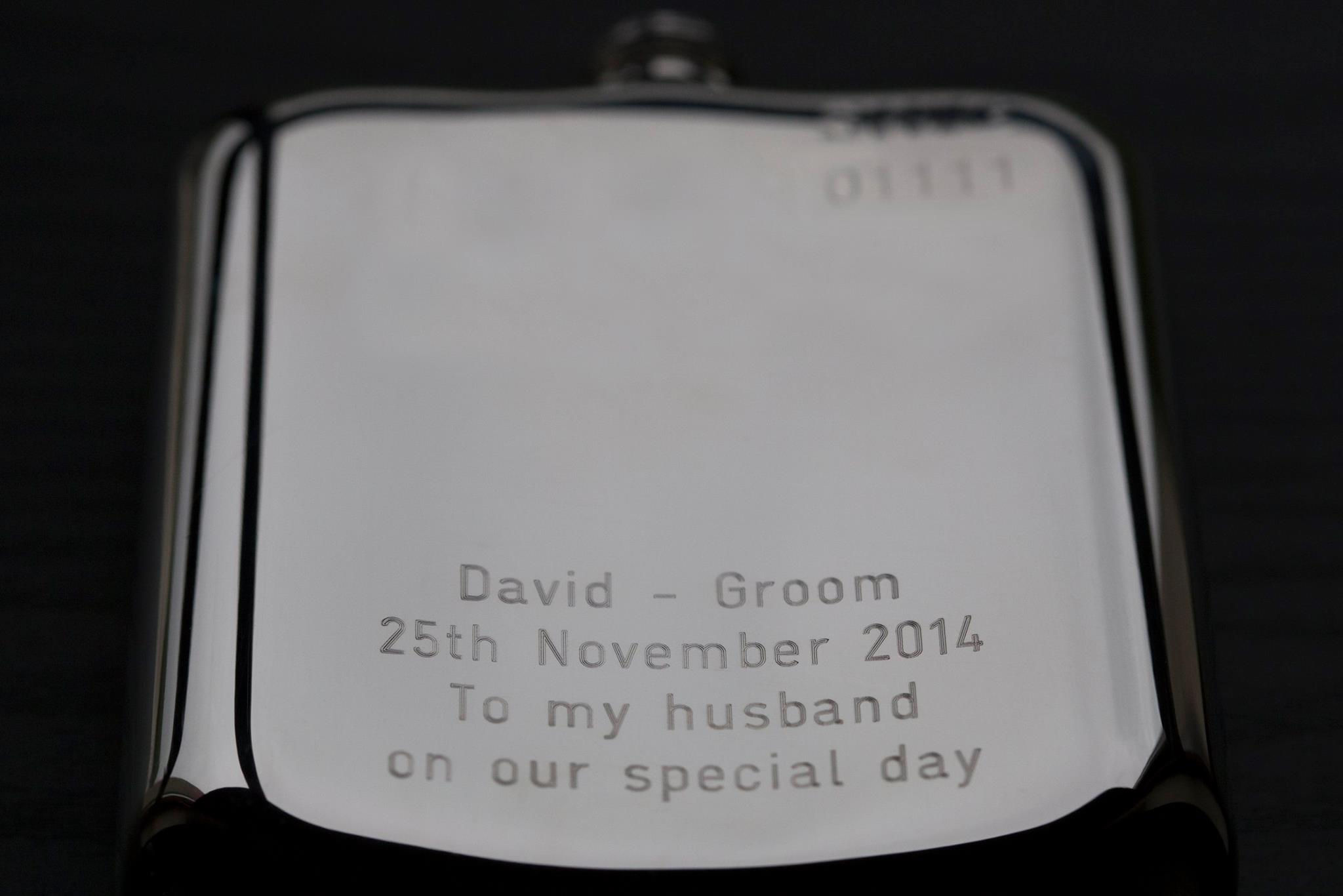 Hip Flask Engraving